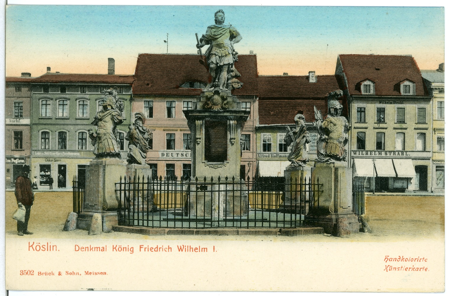 This postcard is from publisher Brück & Sohn in Meißen ( This postcard has a unique number 03502 and is available in a higher resolution at the publisher. This images was uploaded in a cooperation project between Wikipedians and the publisher.